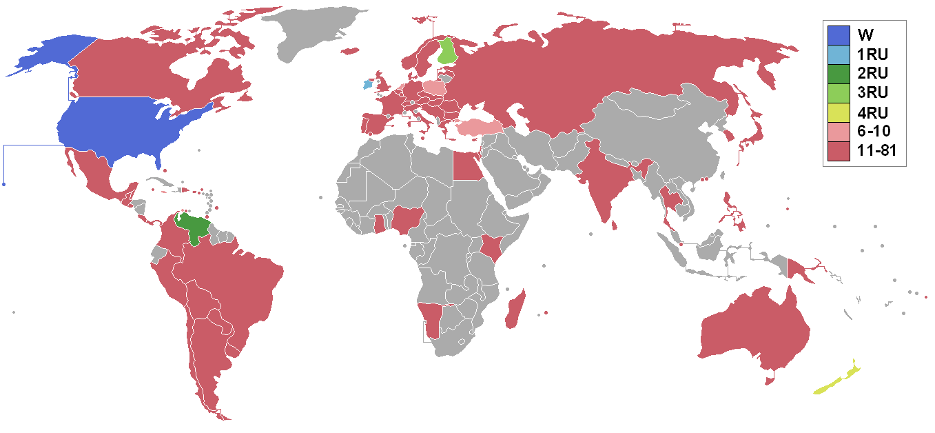 image created by Joey80